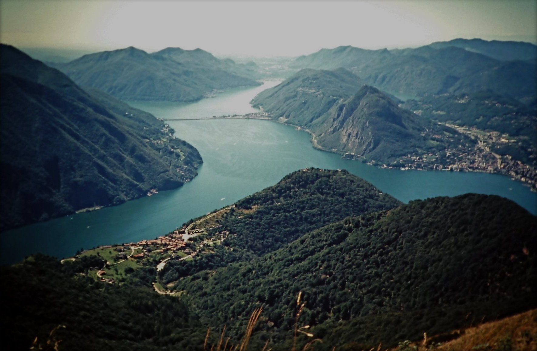 Picture from 1995 of Lake Lugano in Ticino, Switzerland